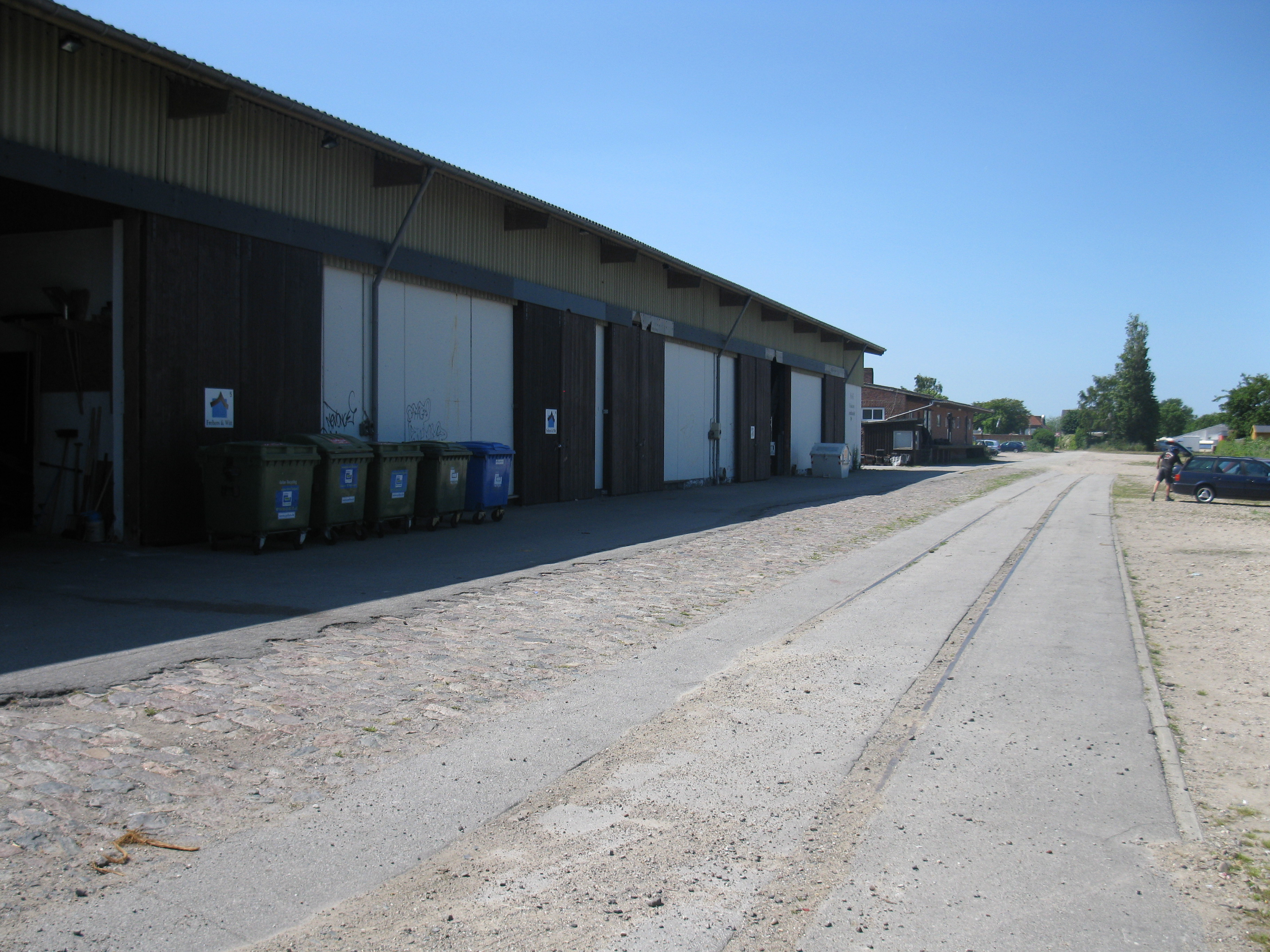 Former railway station, Landkirchen, Fehmarn